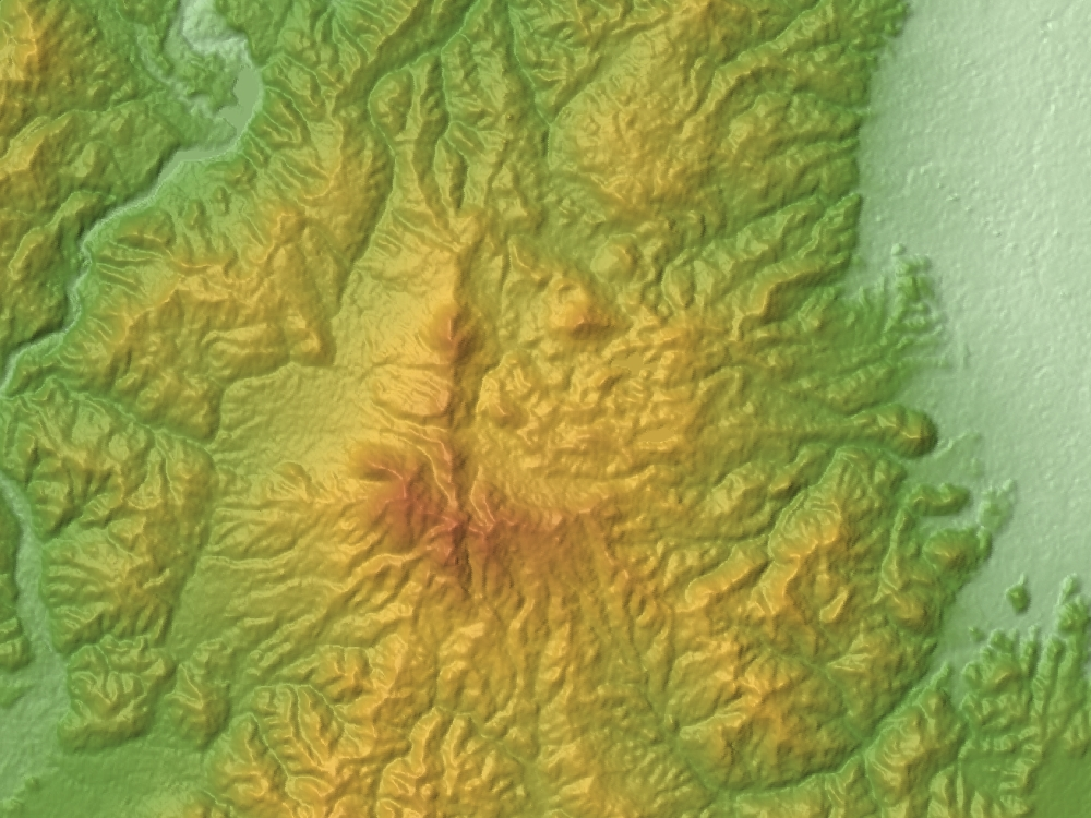 Mount Shirataka (Shirataka-yama) is a extinct volcano in Yamagata Prefecture, Honshu, Japan.